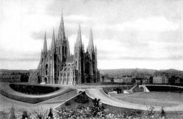 Neo-gothic project for Basilica of Koekelberg by Langerock